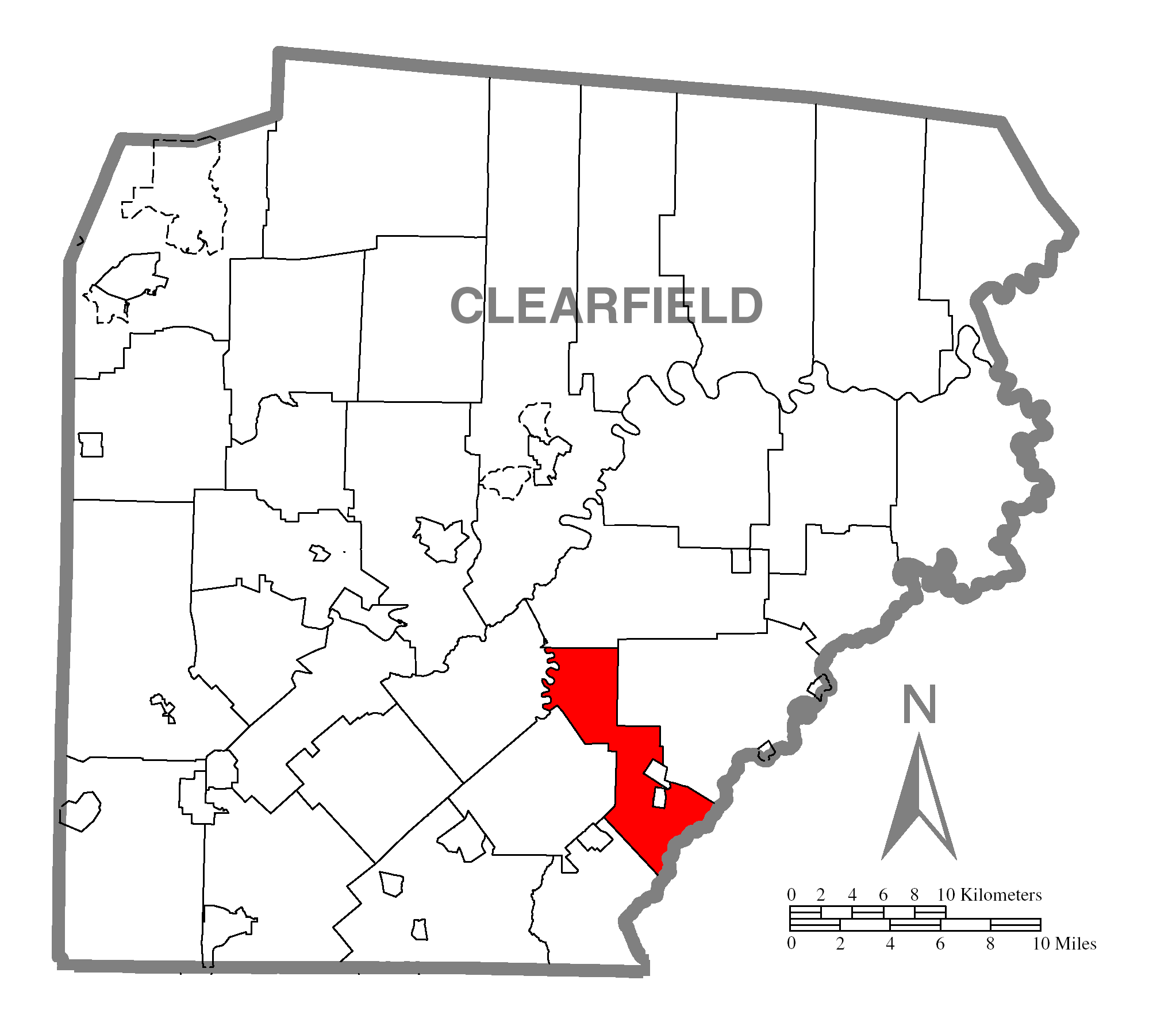 A map of Clearfield County showing Woodward Township, Pennsylvania (alternate) highlighted on the map.